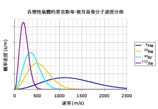 Maxwell-Boltzmann molecular speed distribution for noble gases